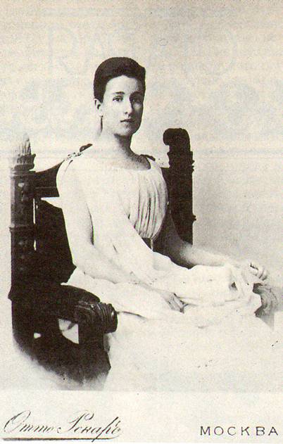 Yekaterina Andreyeva-Balmont (1967–1952)